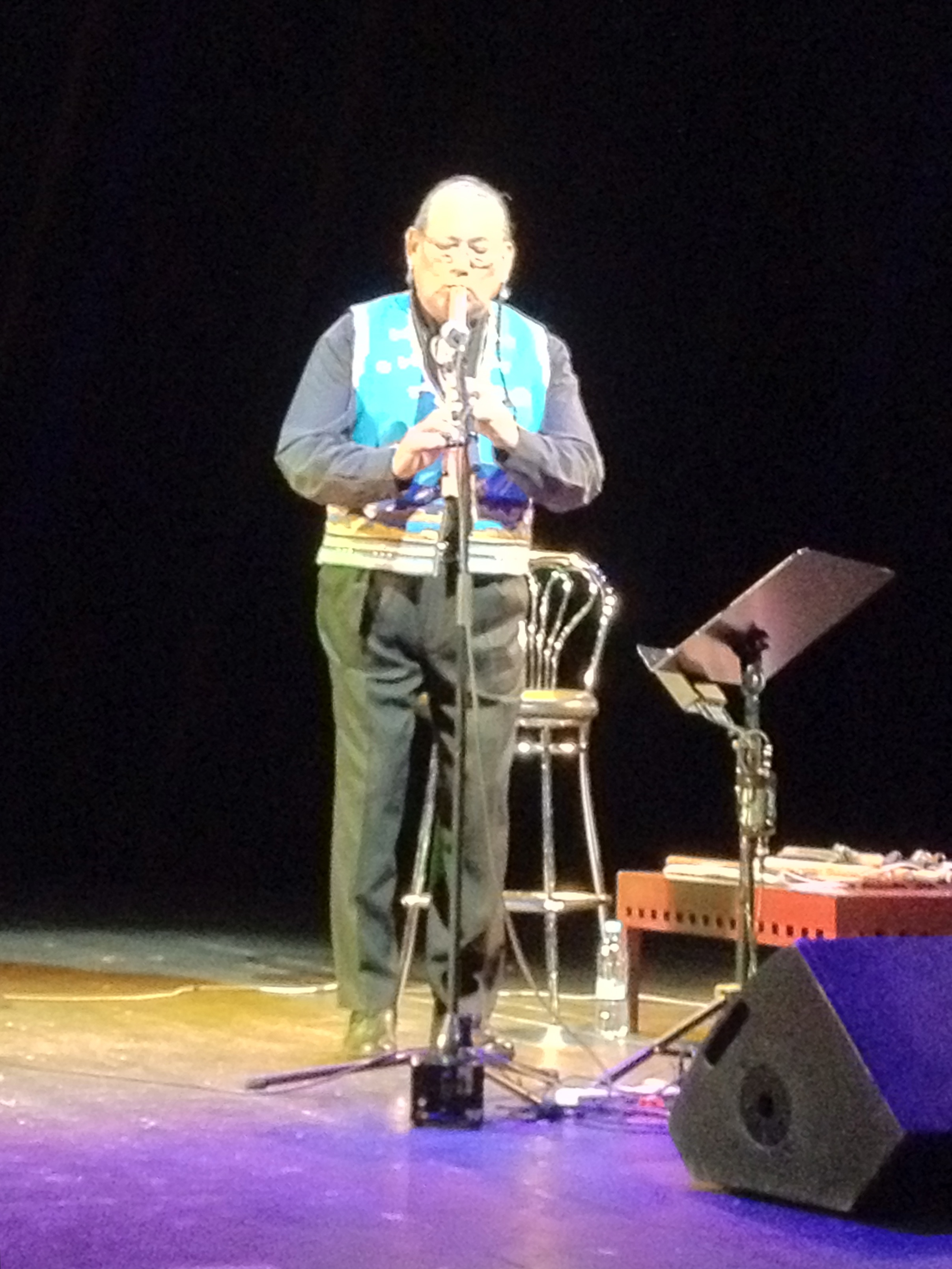 Concert of R. Carlos Nakai in Moscow.